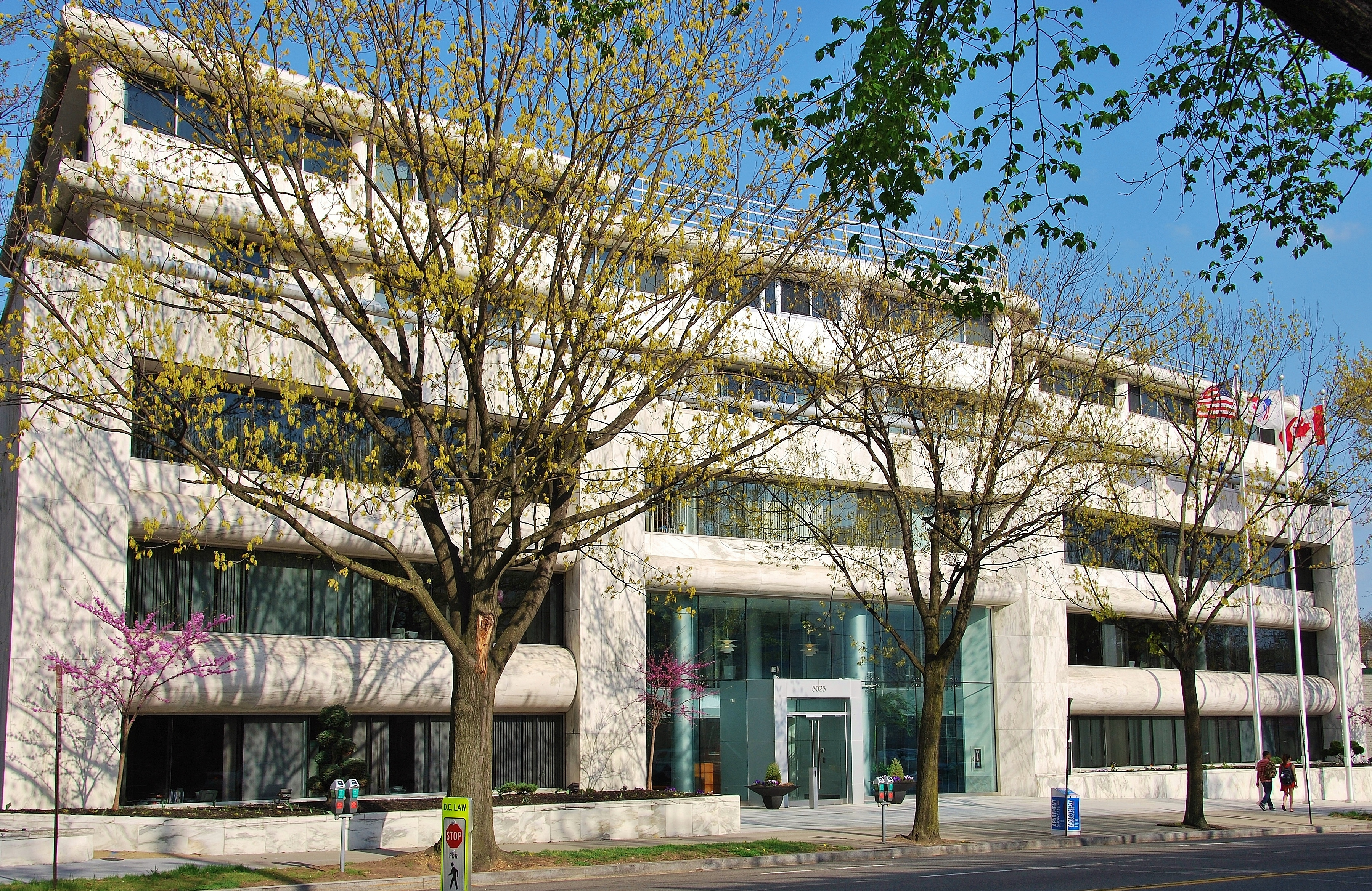 ATU International Headquarters in Washington, DC